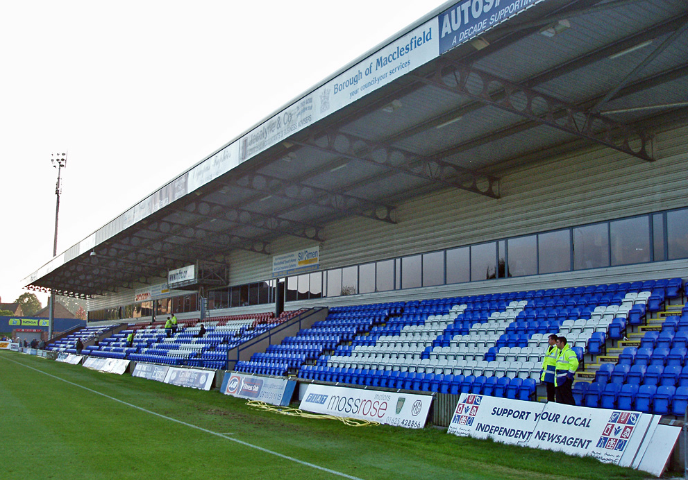 Alfred McAlpine Stand, Moss Rose. Image cropped from original at flickr.